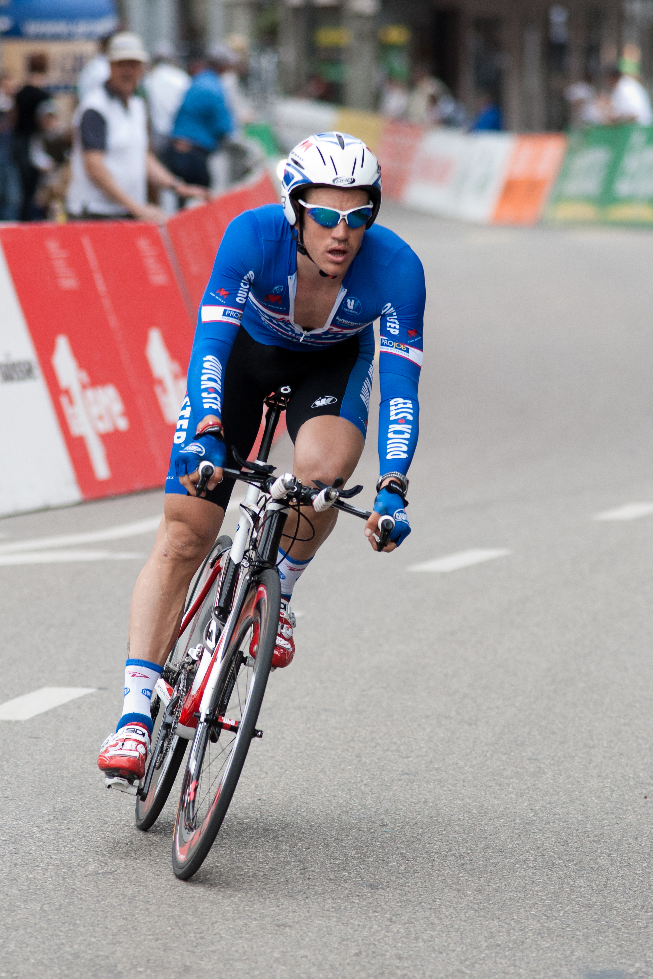 Wouter Weylandt during the 3rd stage of the Tour de Romandie 2010.